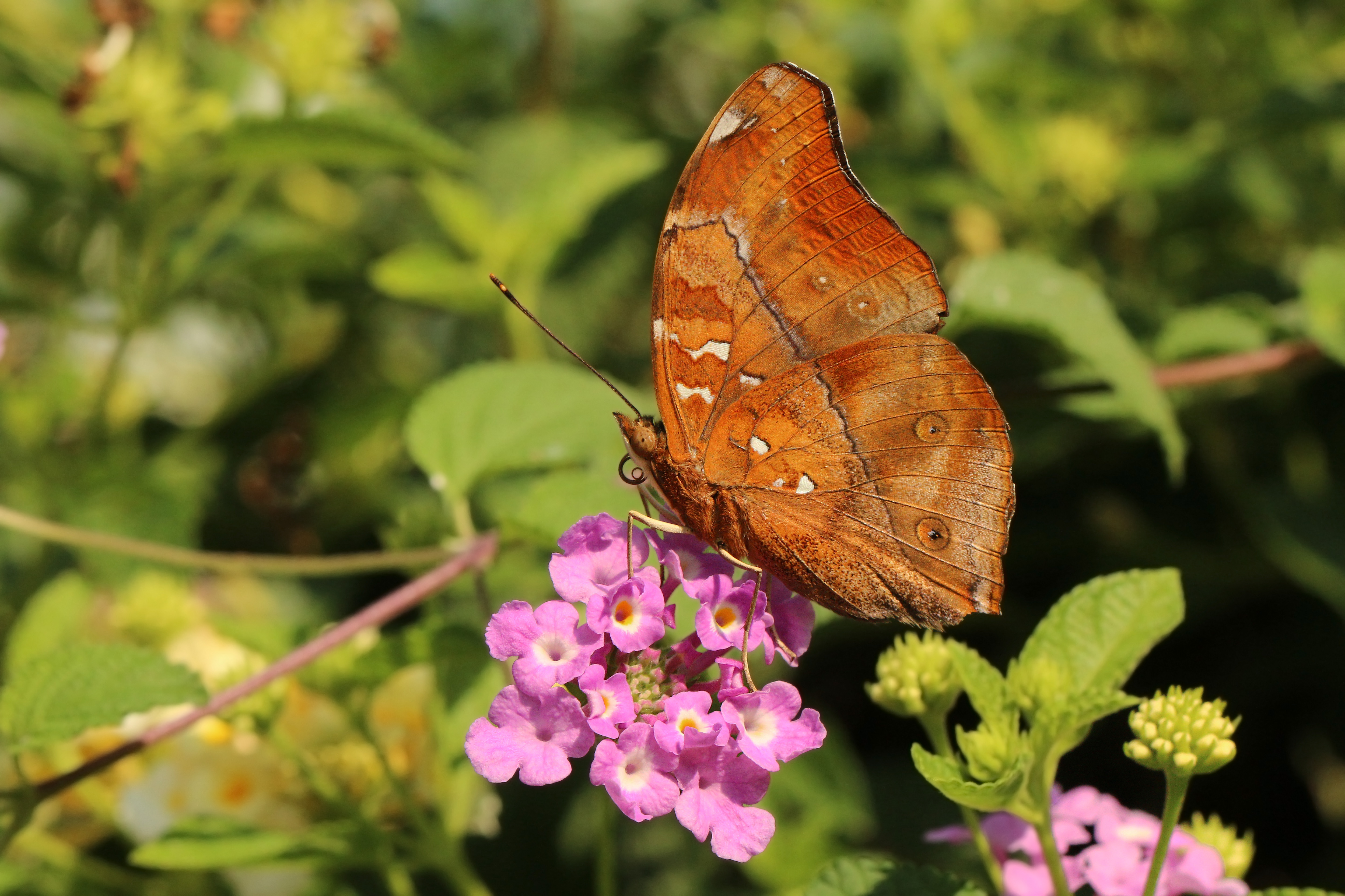 Autumn leaf butterfly (Doleschallia bisaltide) Bali, Indonesia